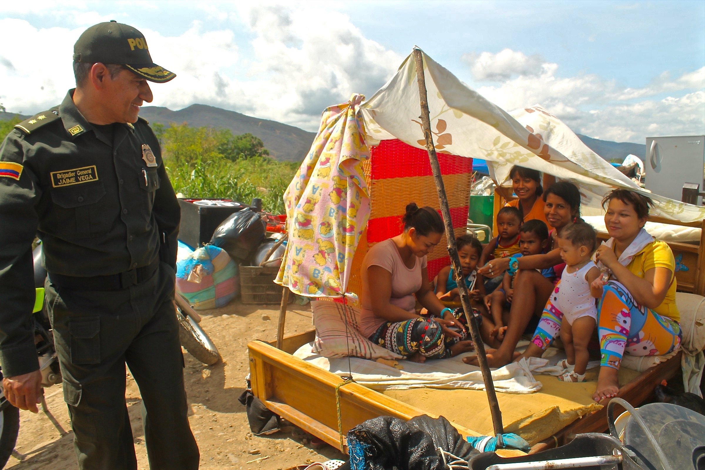 Colombian refugees in a makeshift shelter seeking shade.